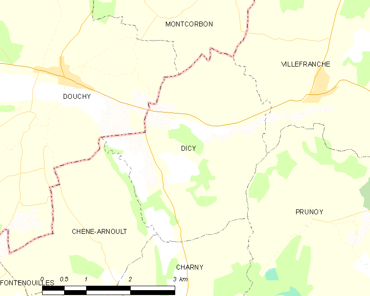 Map of French municipality Dicy